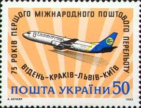 Stamp of Ukraine